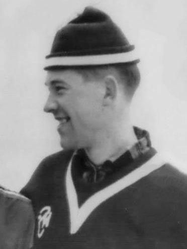 1960 Press Photo T Bjern Yggeseth, G Kotlarek, K Wegeman Olympic Skiing Michigan